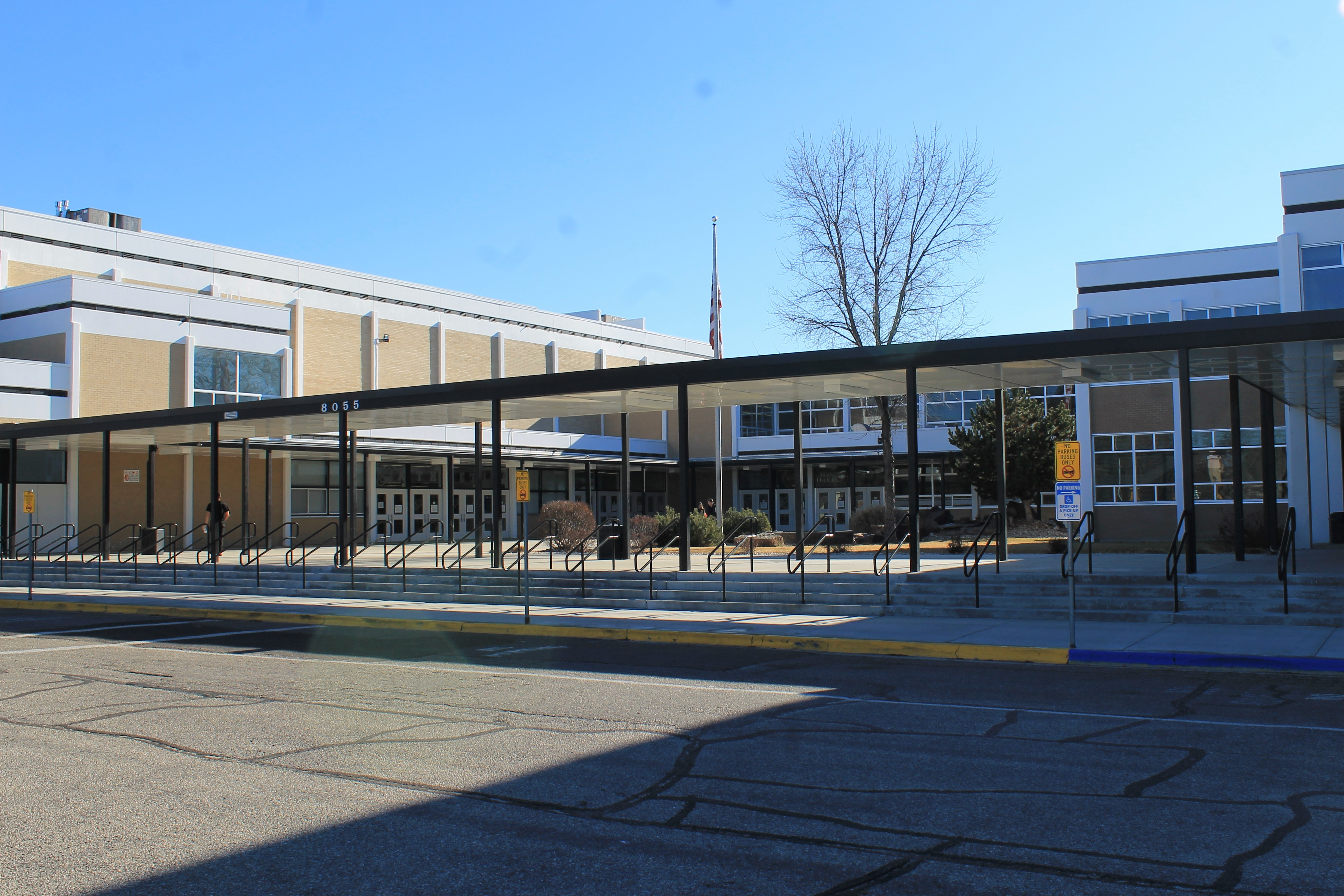 Picture of Capital High School on January 29th, 2019. Photo taken by Richard Mouser.